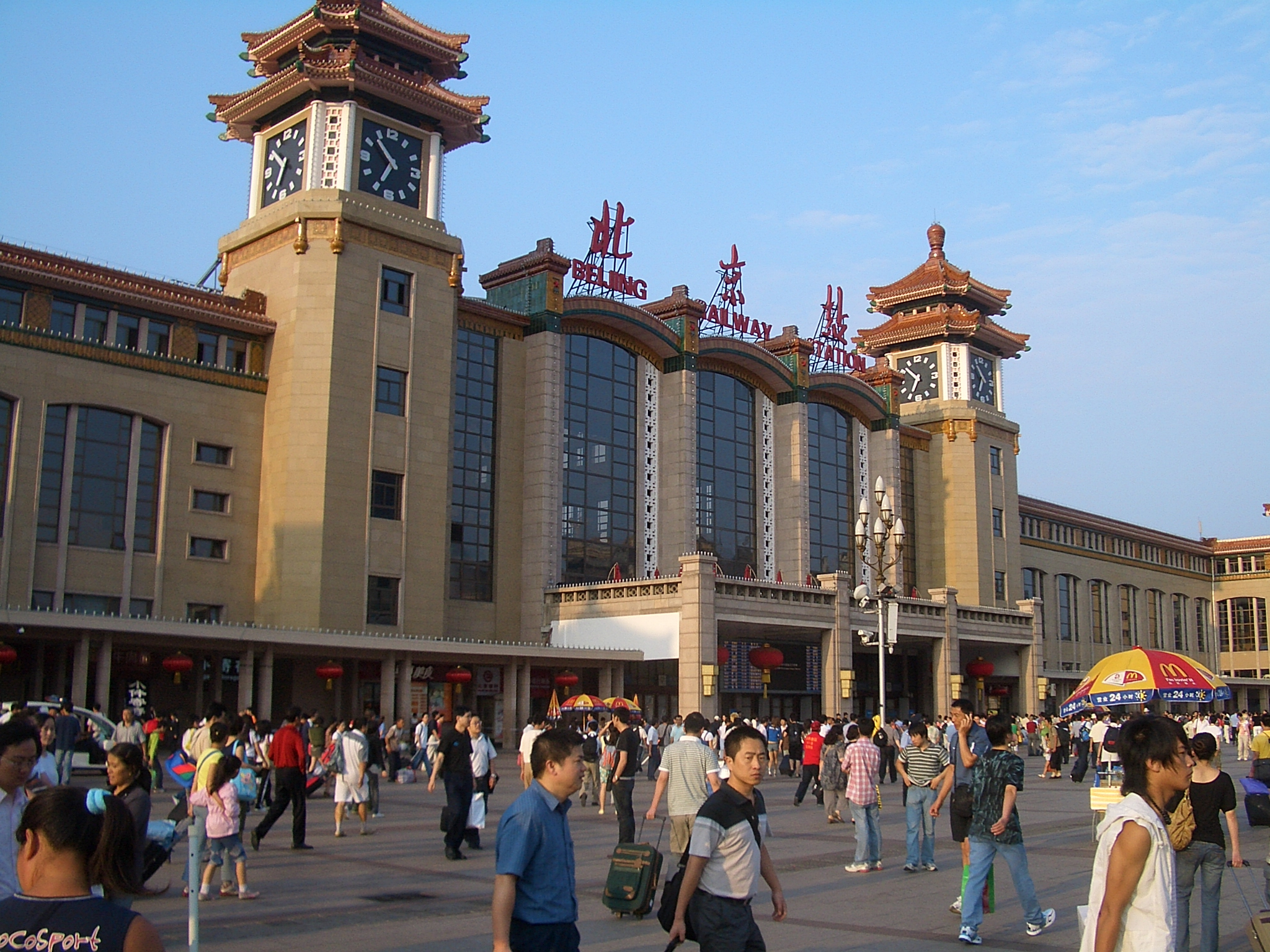 Beijing Railway Station in the morning